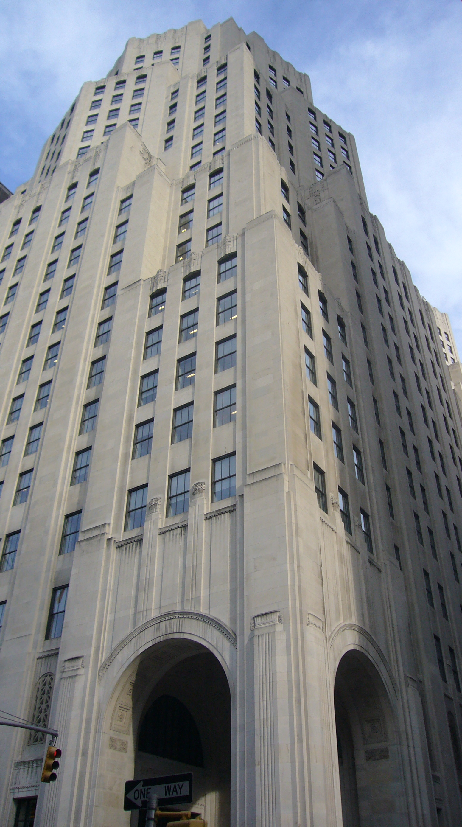 Metropolitan Life North Building, Manhattan, New York City